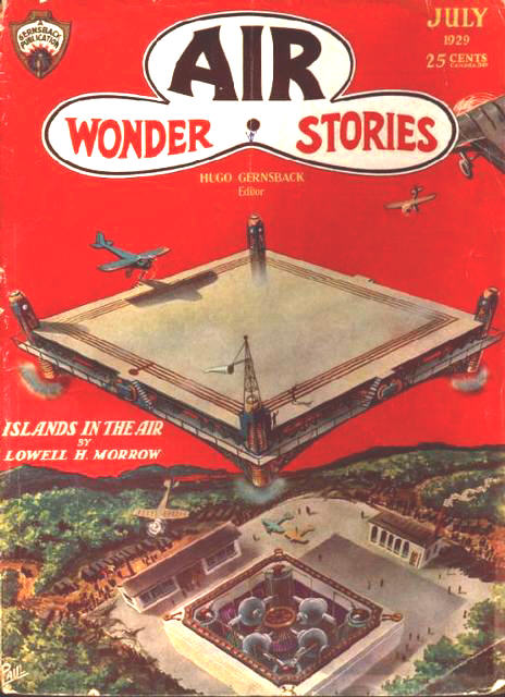 Cover of the July 1929 issue of Air Wonder Stories. Original copyright holder would have been either the artist, Frank R. Paul, or the publisher, Continental Publications.